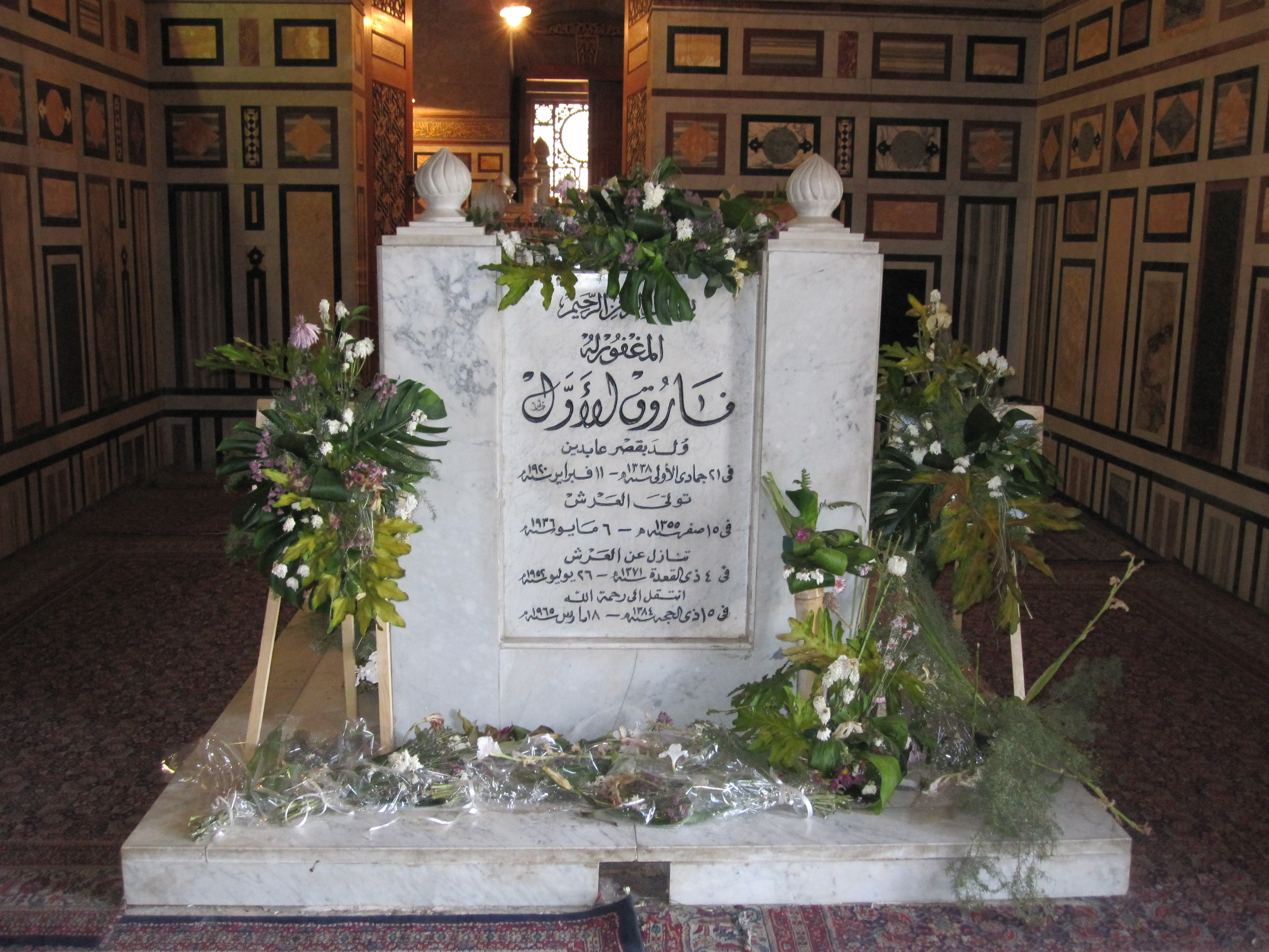 Tomb of King Farouk I of Egypt (1920–1965), located in the Rifa'i Mosque in Cairo.